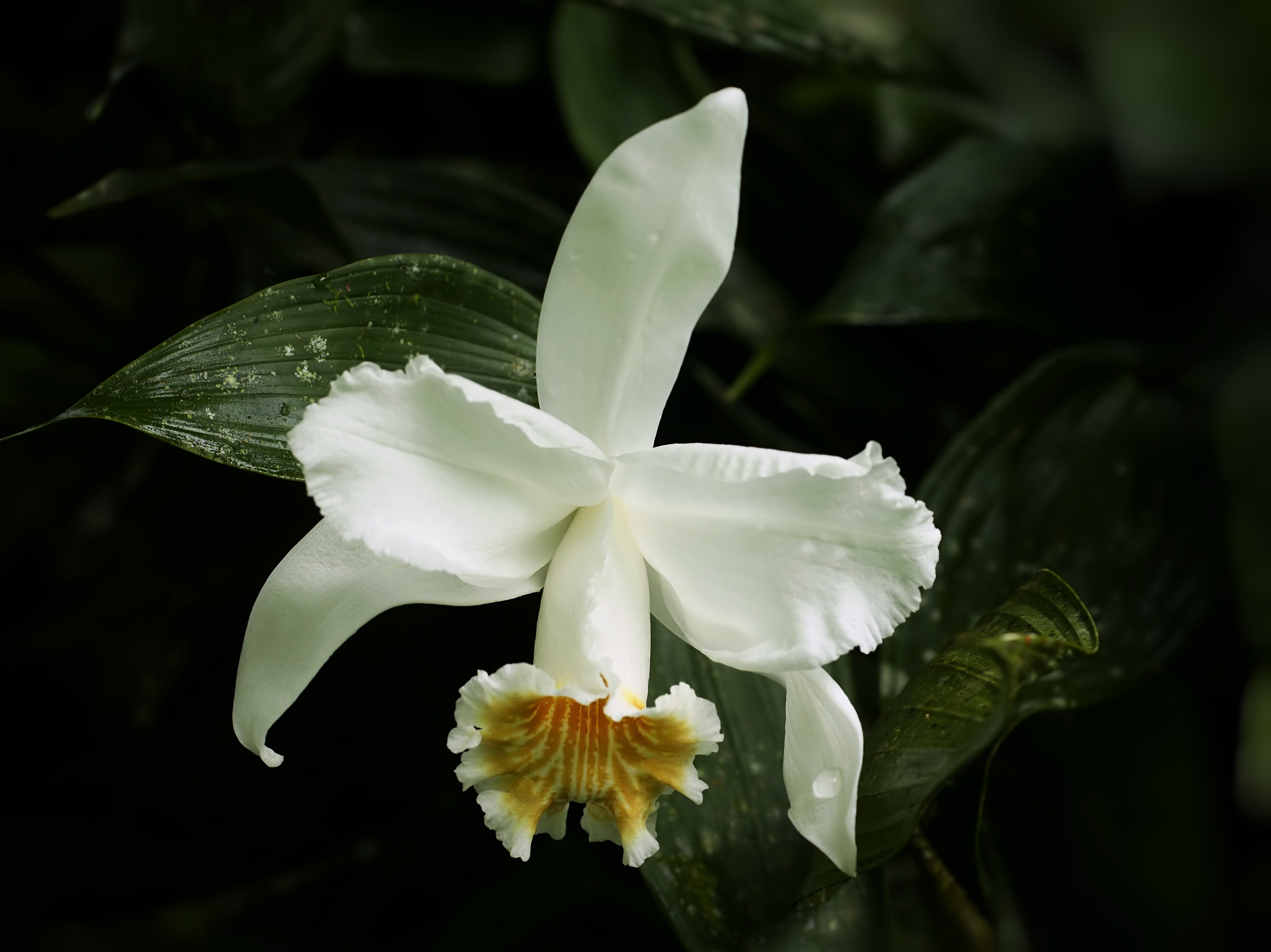 Golden Mouth Sobralia at Puerto Viejo de Sarapiquí, Costa Rica.